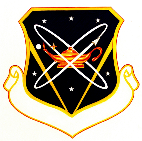 Approved insignia forthe U.S. Air Force Guam Air National Guard.